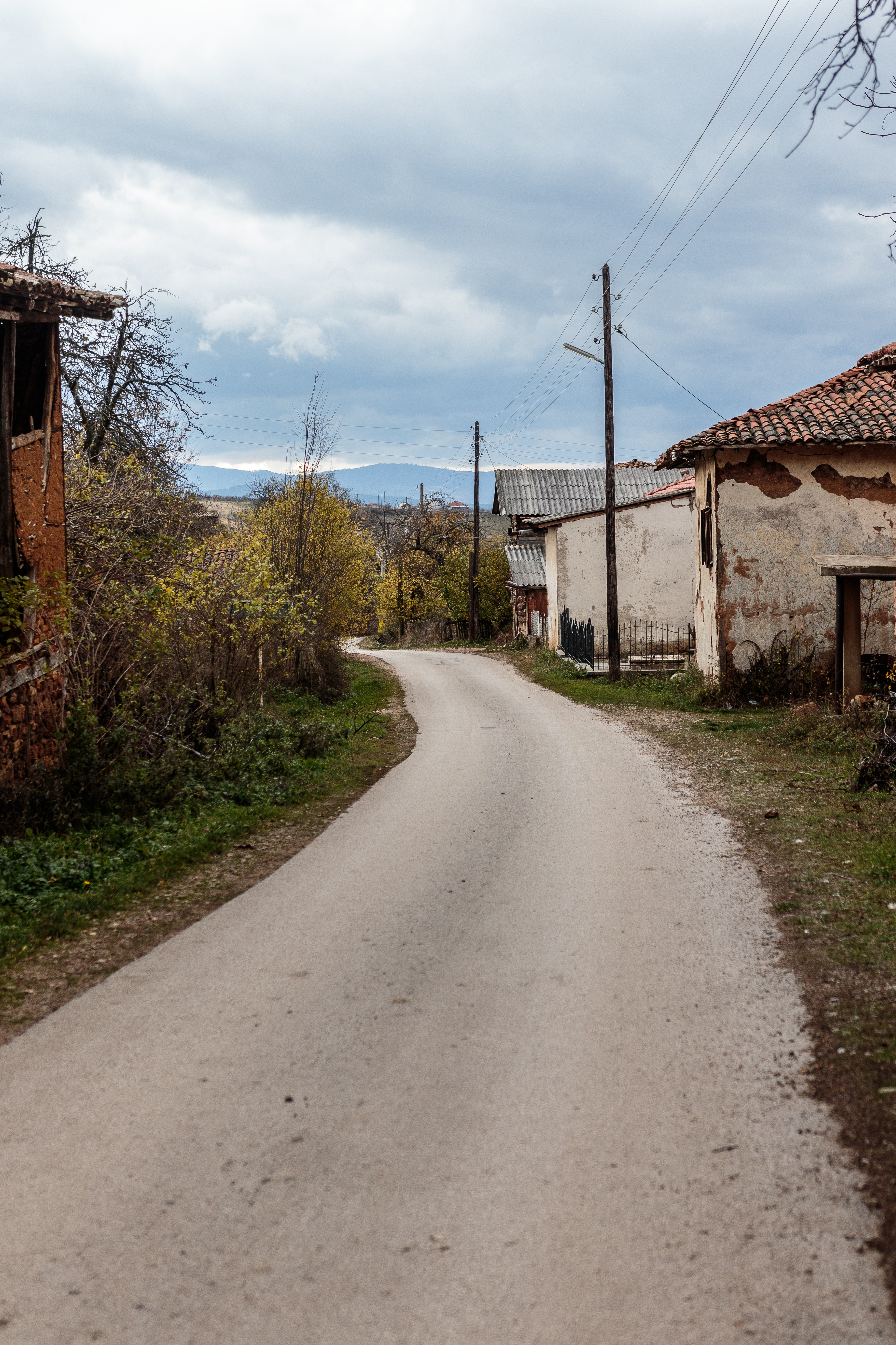 Street in the village of Negrevo, Maleševija, Macedonia